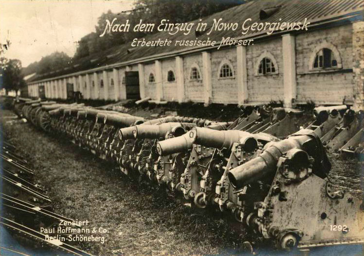 Russian mortars being removed after the capture of Novo Georgievsk in 1915